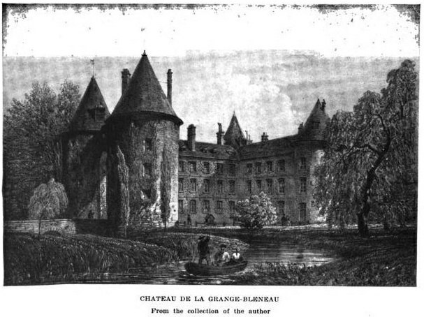 A photograph of Chateau de la Grange Bleneau, from the author of a biography of Adrienne de Lafayette.